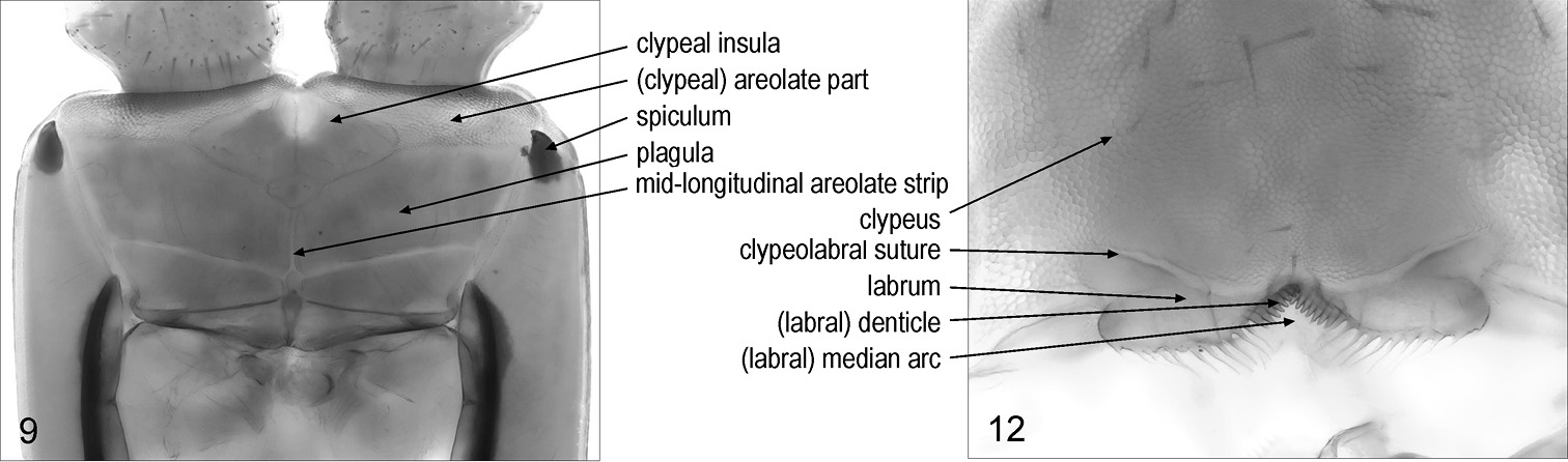 Figures 9 and 12. 9 anterior part of cephalic capsule, without maxillary complex and mandibles, ventral, Mecistocephalus togensis, 12 anterior part of cephalic capsule, without maxillary complex and mandibles, ventral, Pectiniunguis ducalis